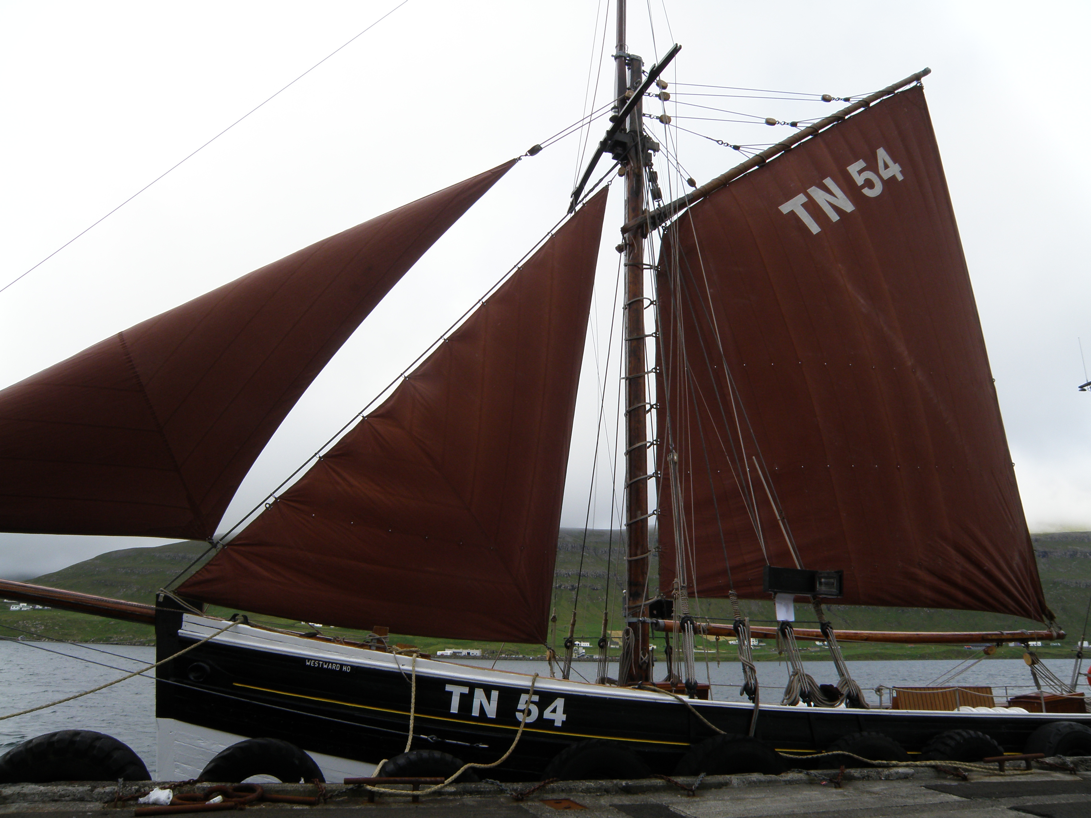 Westward Ho is a Faroese smack, built in 1884 in Grimsby in England. It was sold to the Faroe Islands in 1895. Westward Ho got an engine in 1920. Westward Ho was used as a fishing vessel until 1964. It had its home in Tvøroyri at that time, but in 1966 a group of people from Tórshavn, the capital of the Faroe Islands, bought the ship. During World War 2 Westward Ho was fishing near Iceland and around the Faroe Islands and brought the fish to Scotland, which was very dangerous. This photo was taken on 26 July 2010 in Tvøroyri at the Føroya Retatta 2010, which lasted for four days, the regatta ended in Tórshavn at the national Faroese holiday Ólavsøka on 28 July 2010. Føroyskt: Westward Ho er føroysk slupp, sum hoyrir heima í Tórshavn. Sluppin varð bygd í Grimsby í Onglandi í 1884. Hon var seld til Føroya í 1895.